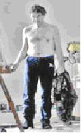 Anthony Painting Naked